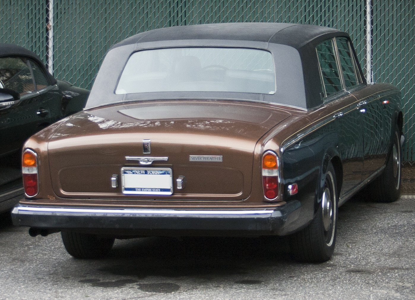 1977-1980 Rolls-Royce Silver Wraith II (US market)